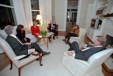 Photograph of the library at One Observatory Circle, official home of the Vice President of the Unted States. Original description Vice President Dick Cheney and Lynne Cheney entertain Chief of Staff for the Vice President Lewis Libby (left) and his wife Harriet Grant (second on right) and former Vice President Dan Quayle (right) and his wife Marilyn Quayle (second on left) in the first floor library at the Naval Observatory Dec. 4, 2001.